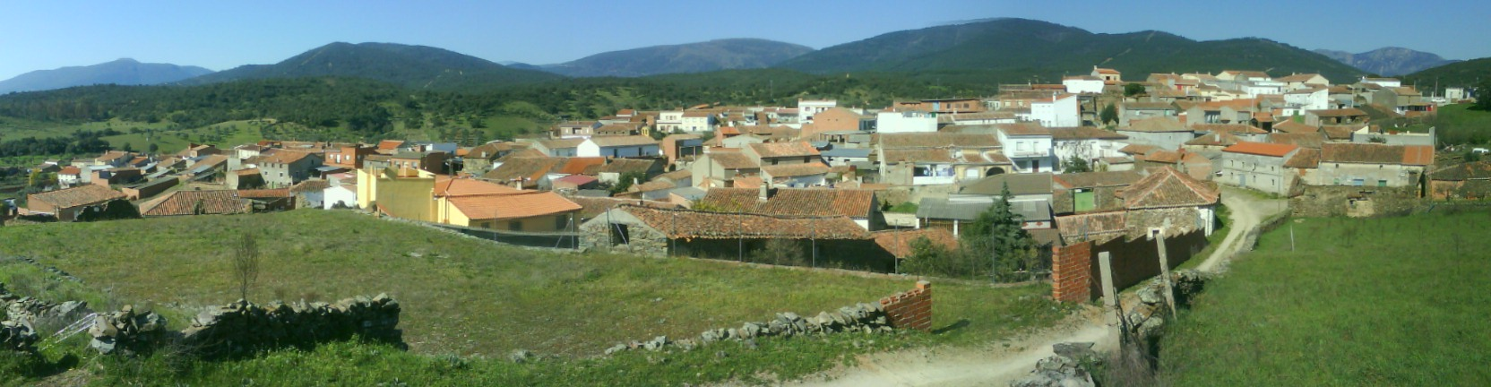 Panoramic view of Los Alares (Toledo, Spain)